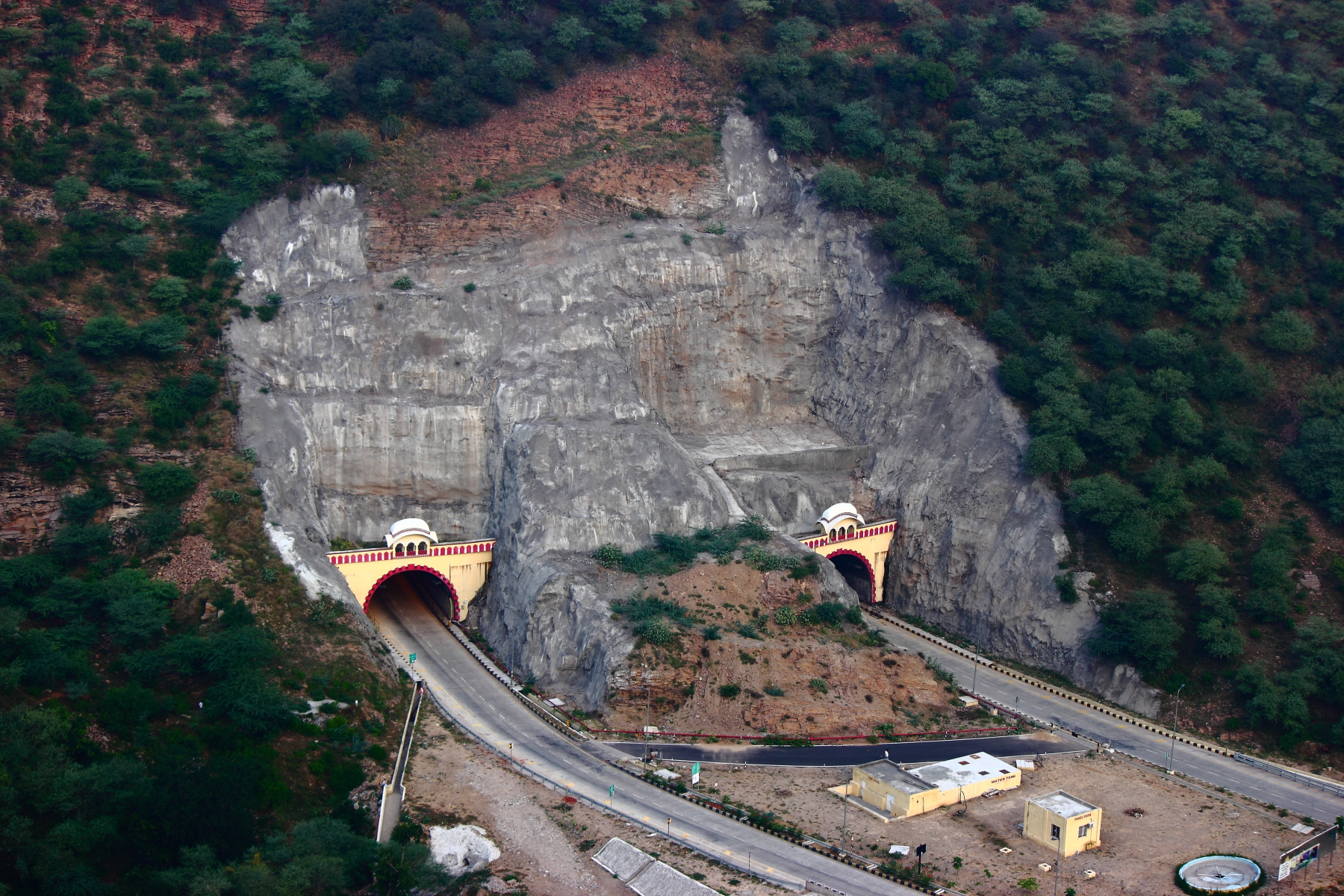 Ghat ki Guni twin-tunnel near Jawahar nagar bypass in Jhalana Hills completed in 2013. It cut the distance by half, reduced travel times by four fold. Tunnel is located on NH 21 (Old NH11), Rajasthan India